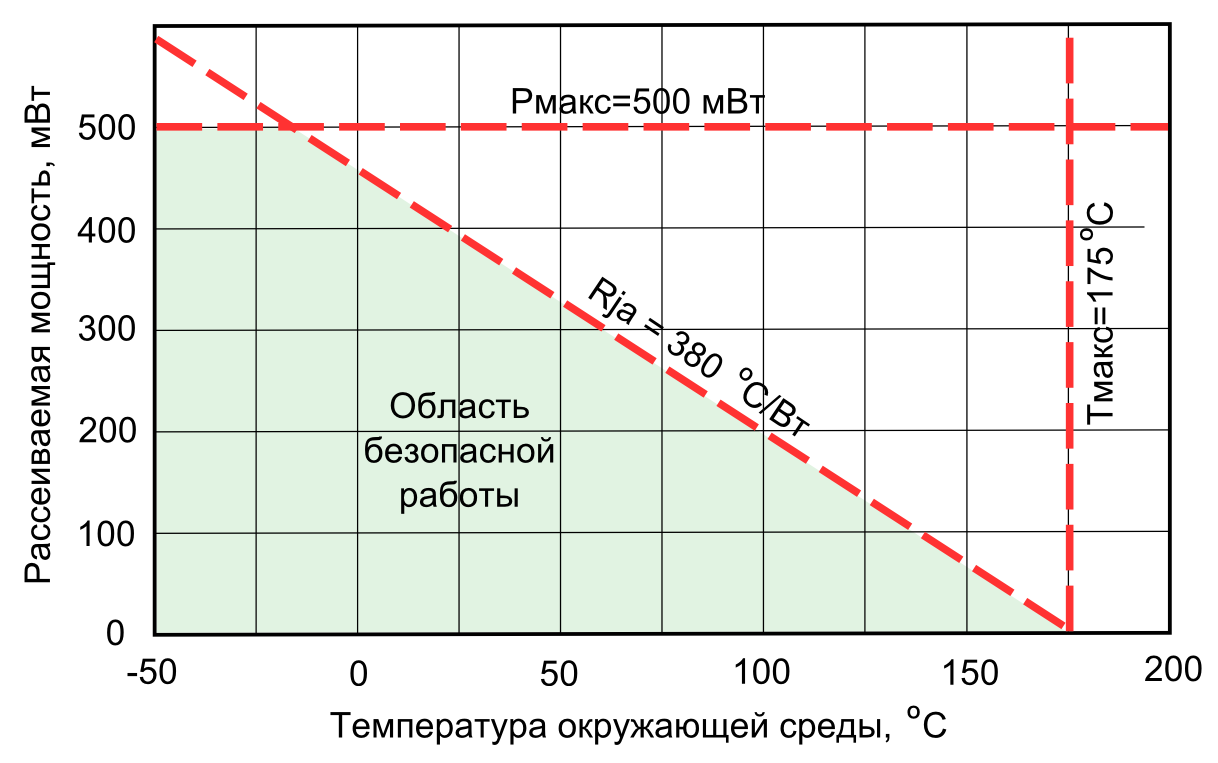 Zener diode thermal derating - NXR series as an example.